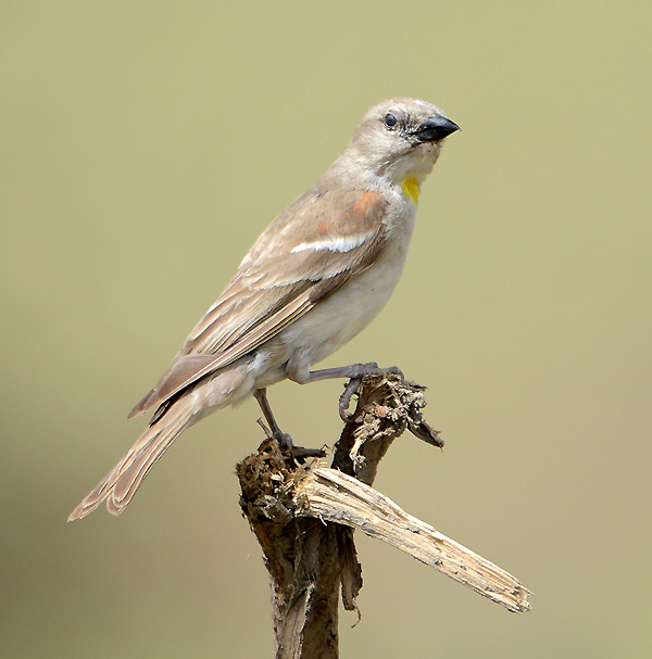 A male Yellow-throated Sparrow in remote jungle, Village Matanhale, District Jhajjar, Haryana, India.